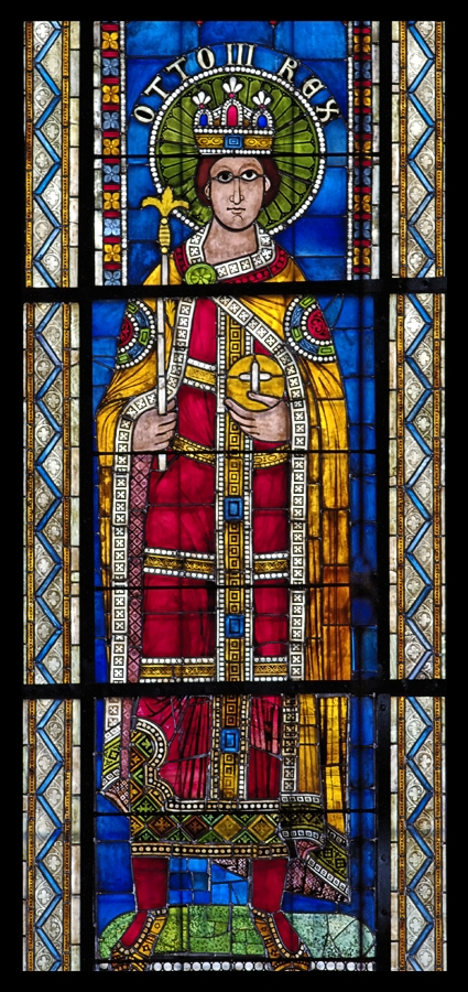 Romanesque stained glass depiction of Otto III, Holy Roman Emperor; Cathedral of Our Lady of Strasbourg, France